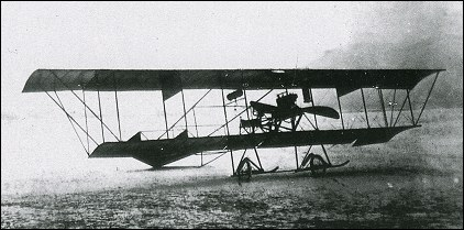 Photo of the Sikorsky S-5 aircraft front circa 1911.jpg